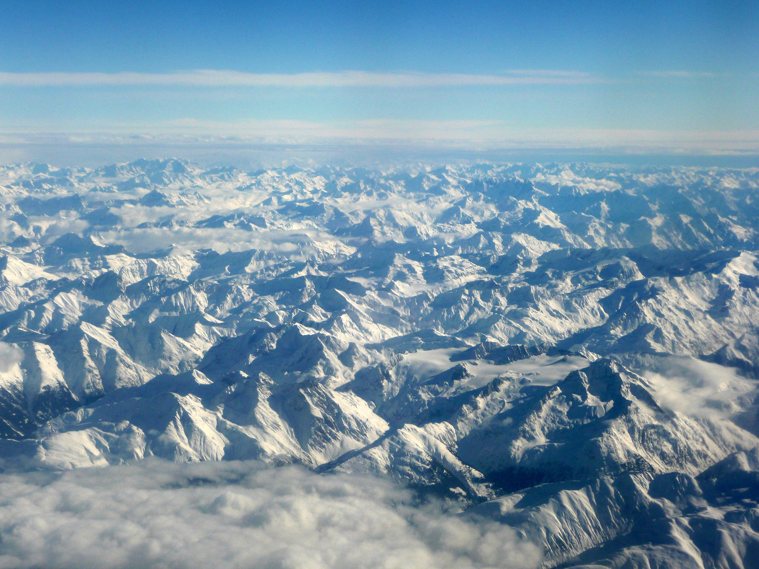 Alps, view by aeroplane. Bündner Alps and Alps of Ticino looking southeast to southsoutheast. See image annotations for details.